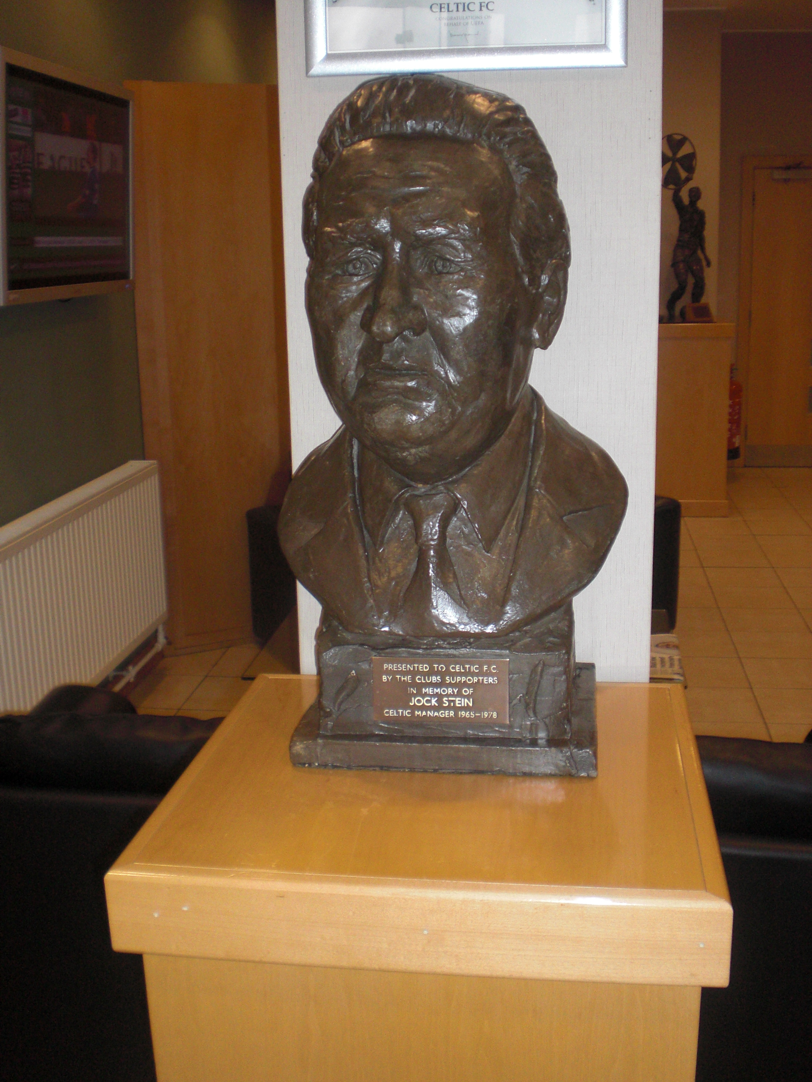 Jock Stein, the famous scottish football manager. Statue located at Parkhead Stadium, Glasgow.